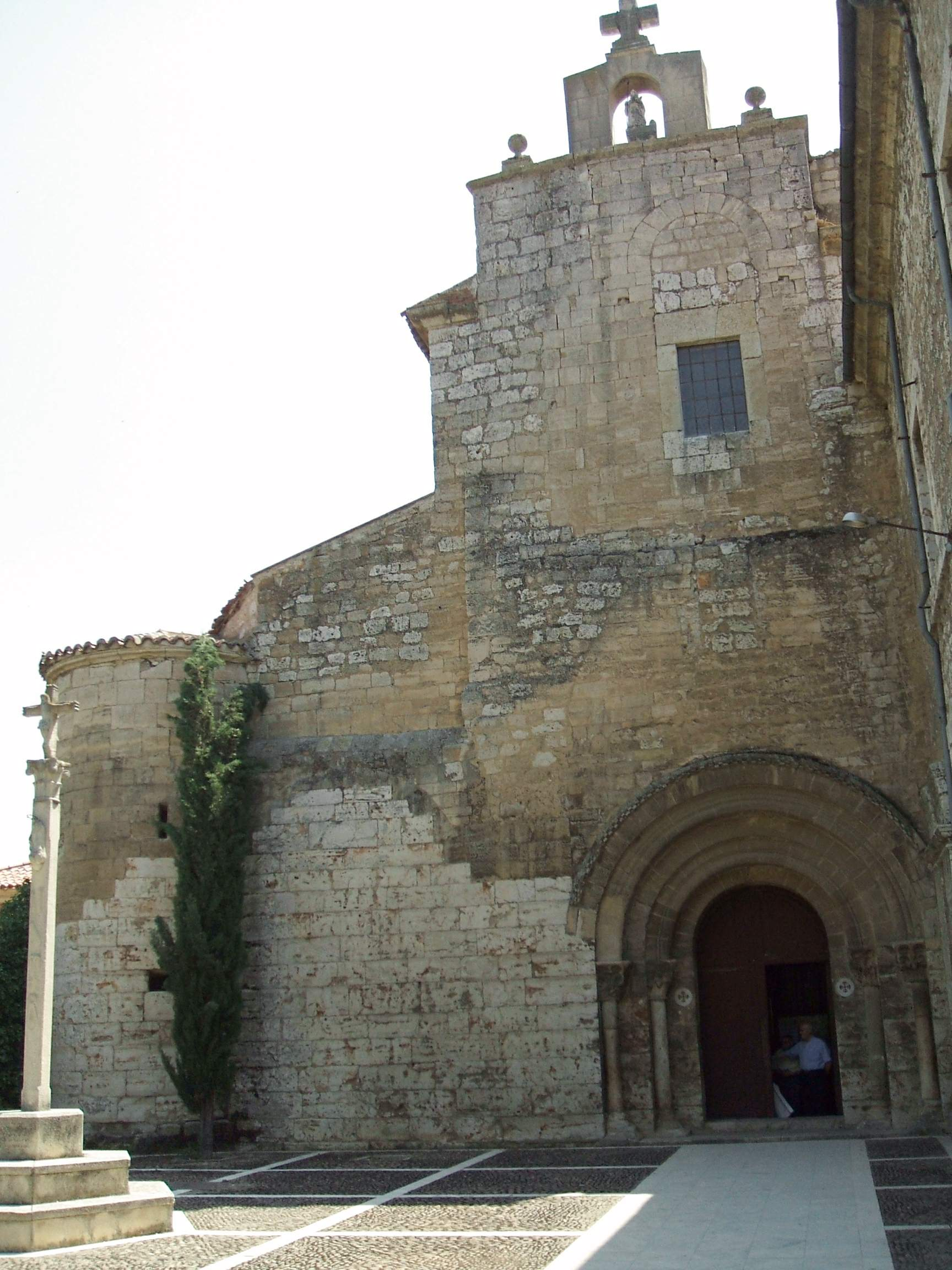 Iglesia románica del Monasterio de San Isidro de Dueñas (La Trapa), en Venta de Baños